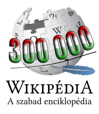 Logo for 300,000 articles on Hungarian Wikipedia